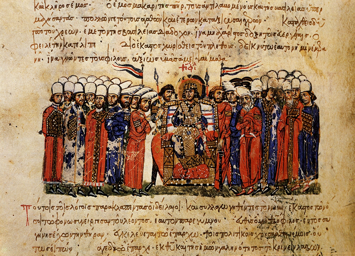 Byzantine Emperor Theophilos (r. 829-842), surrounded by dignitaries of his court. Illustration from the Madrid Skylitzes. Fol. 42v